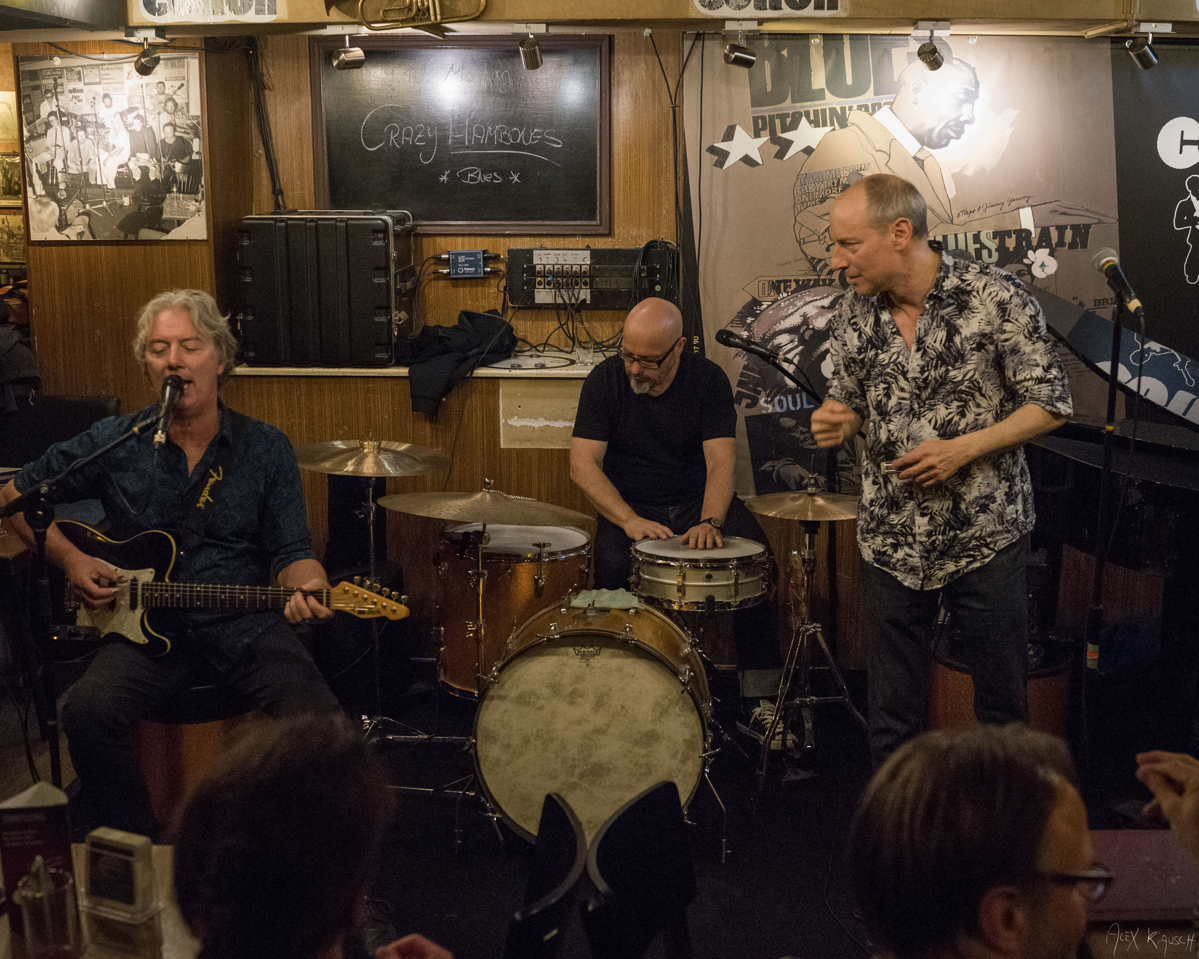 The Crazy Hambones Live at Cotton Club, Hamburg 2017